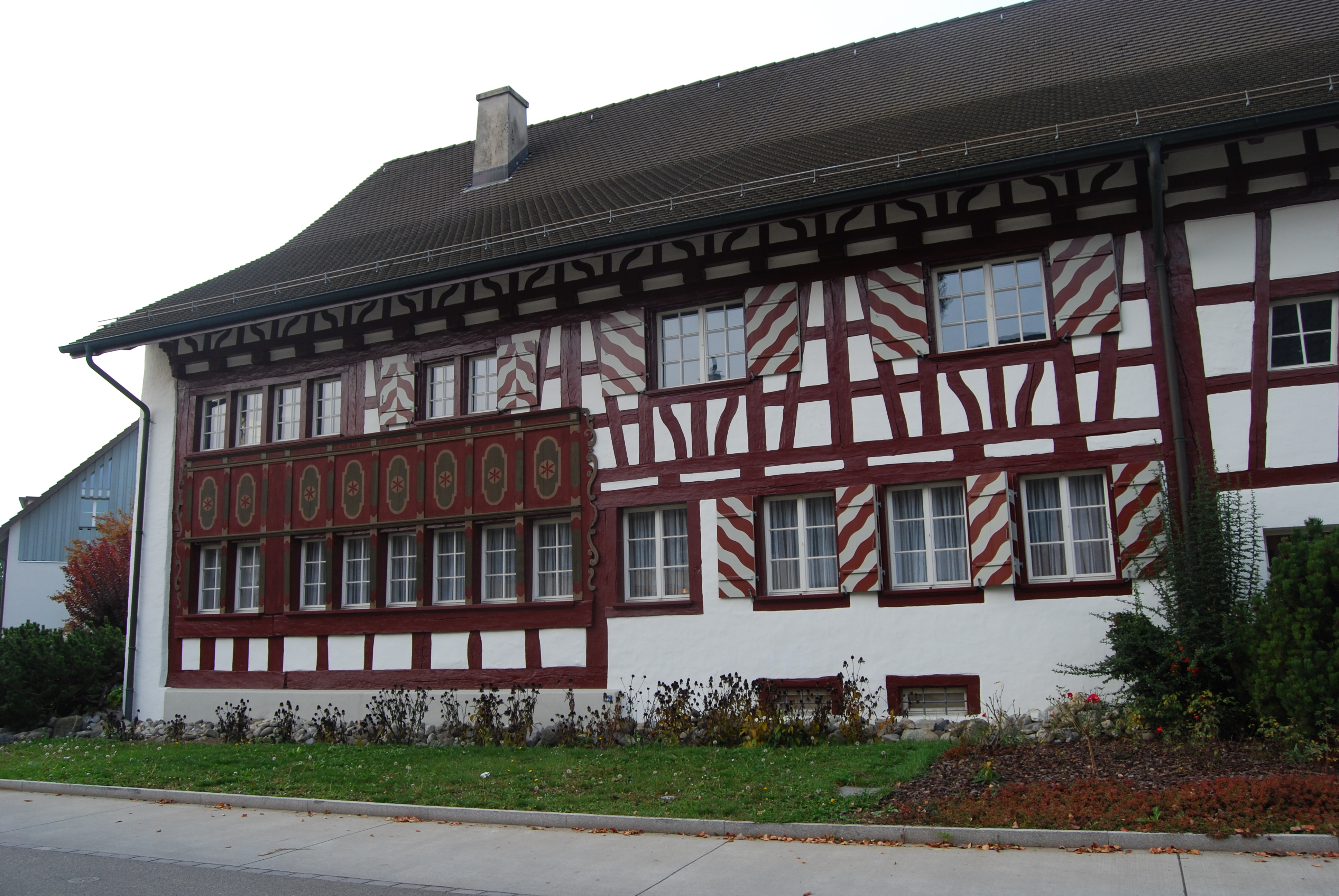 Timber framing house at Hettlingen, canton of Zürich, SwitzerlandEsperanto: Faktrabdomo en Hettlingen, Kantono Zuriko, Svislando